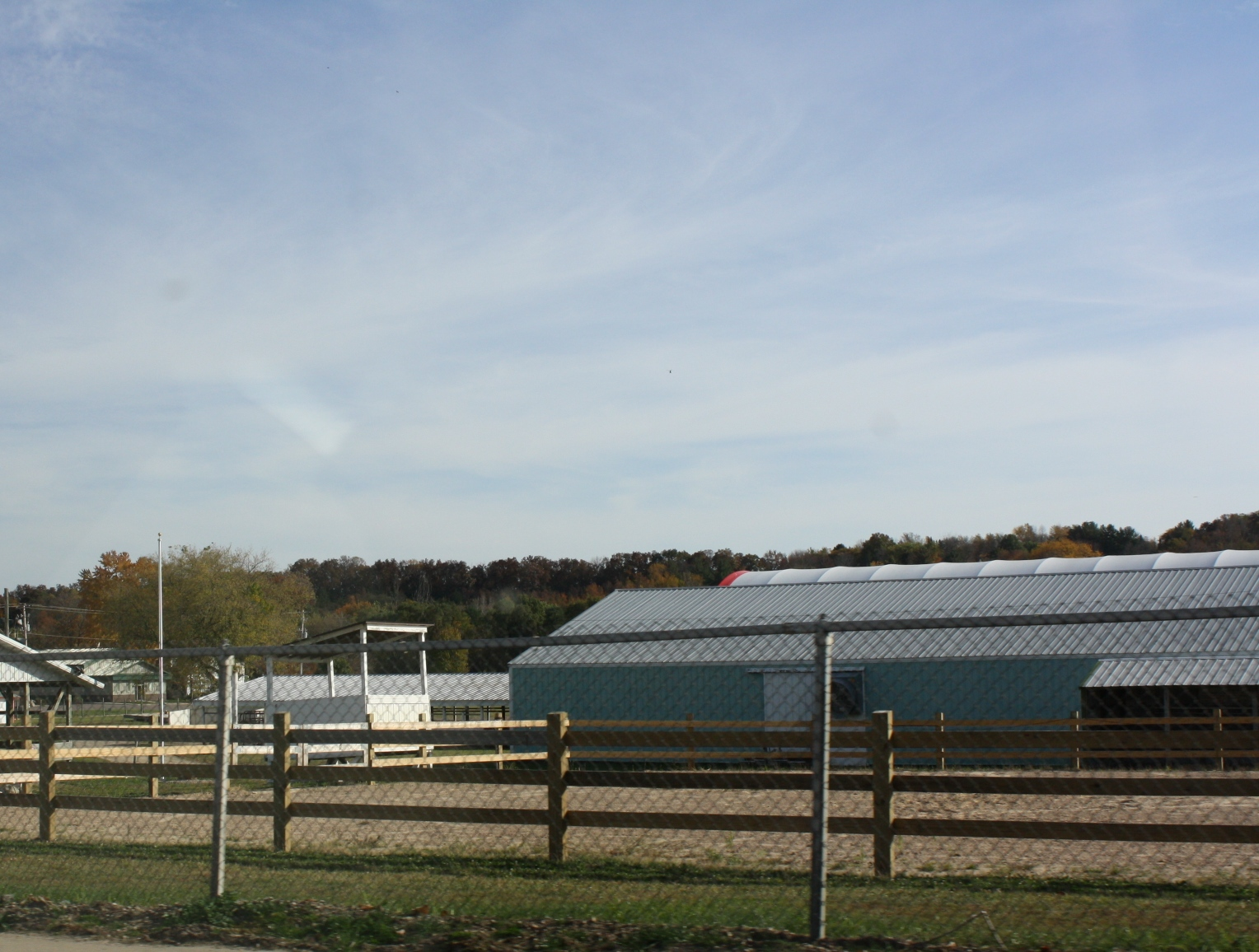 The fairgrounds for Sauk County, Wisconsin in Baraboo, Wisconsin along Wisconsin Highway 33.